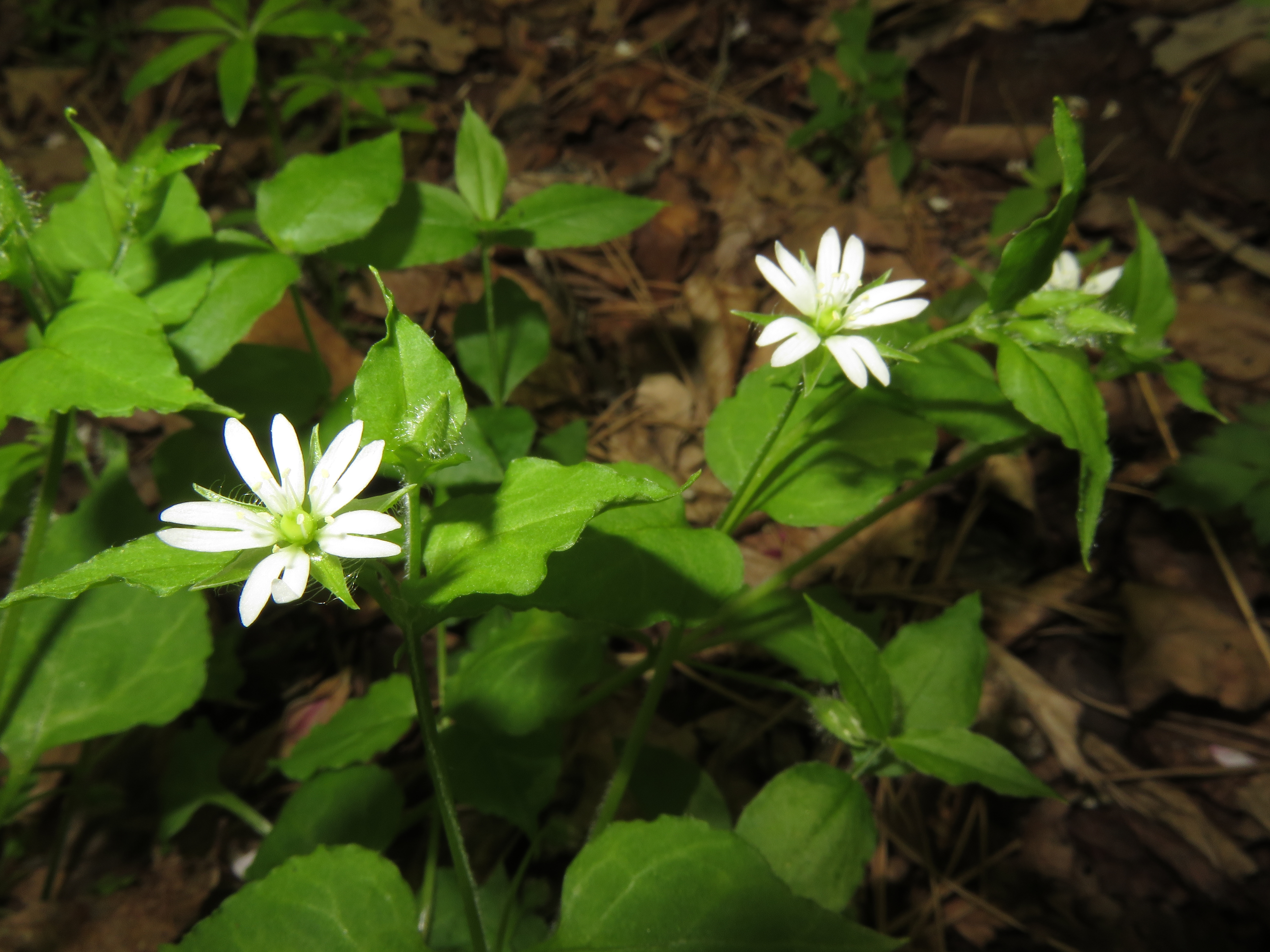 Stellaria sessiliflora, Naka-dori area, Fukushima pref., Japan